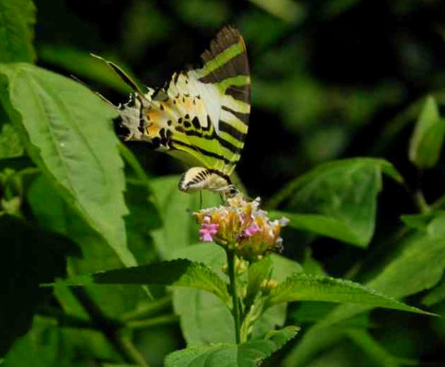 Fivebar Swordtail, Kolkata, West Bengal, India